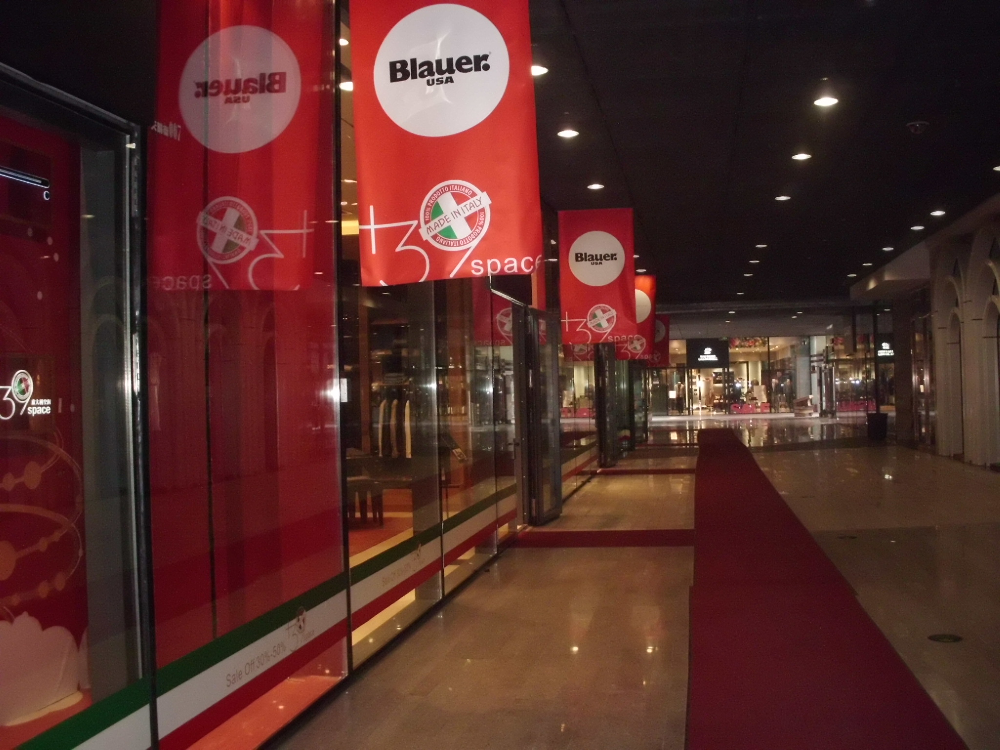 sasseur life plaza